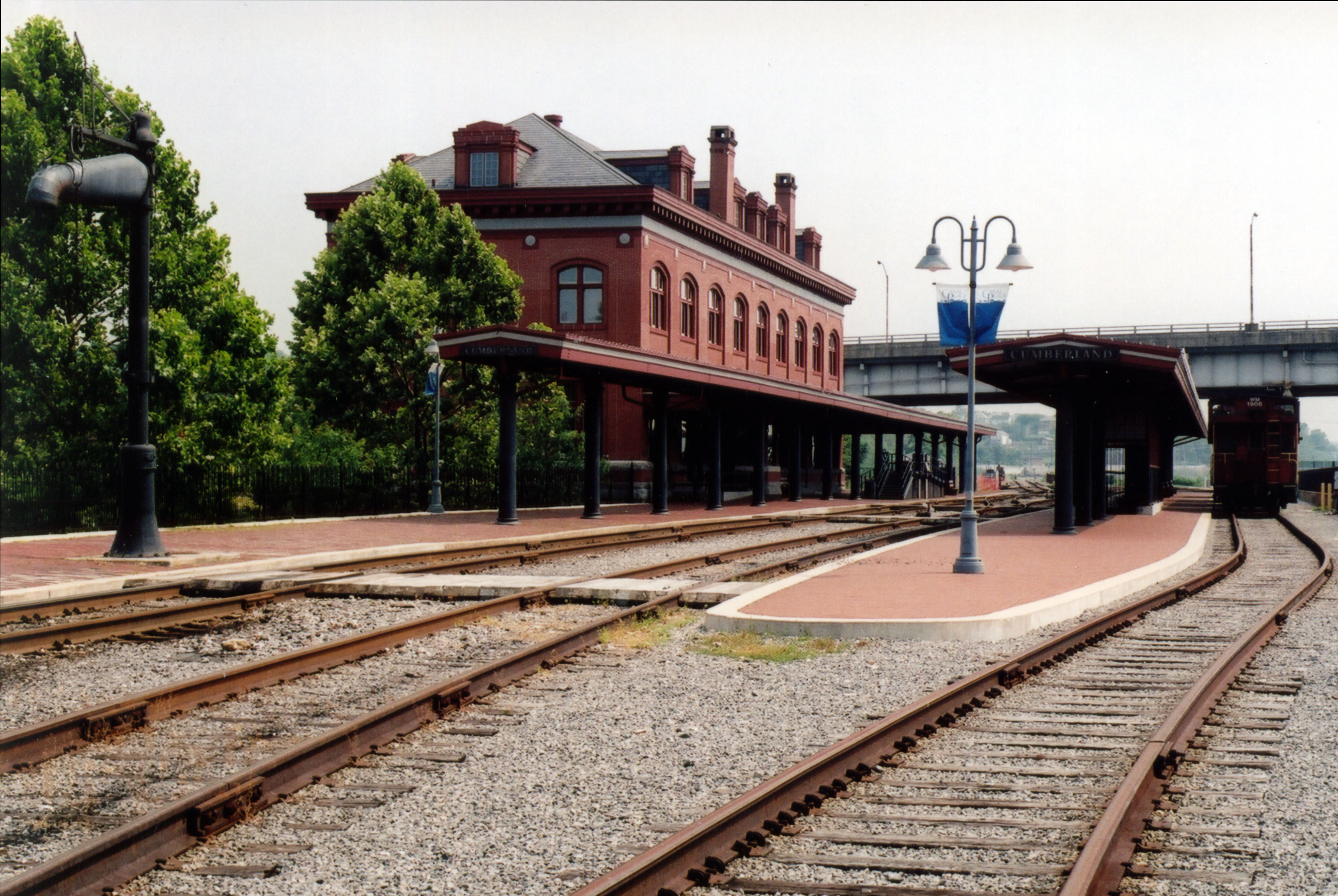 View of Western Maryland Railway Station in Cumberland, Maryland, USA. Built in 1913. Passenger operations at the station ended in 1959; the railway continued to use the station until 1976. In the 1990s the State of Maryland included the station in the Canal Place Preservation District and renovated the station. The building houses the Cumberland Visitor Center for the C&O Canal National Historical Park and the offices of the Western Maryland Scenic Railroad.